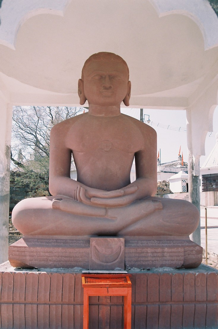 Chandraprabh Bhagwan, Sonagiri Ji